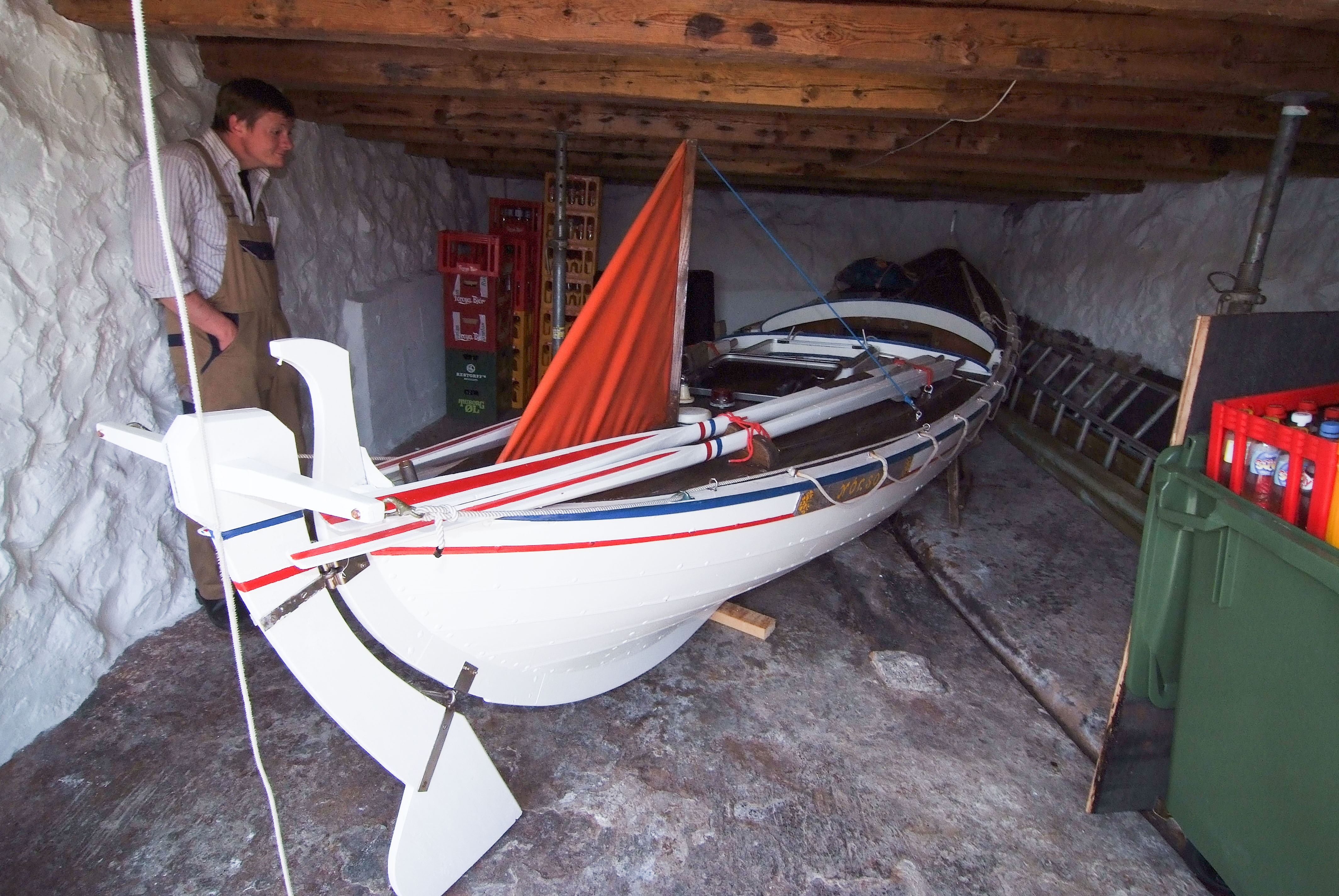 "Diana Victoria", the legendary Faroe boat of Ove Joensen, in which he rowed alone within 41 days from the Faroes to Copenhagen